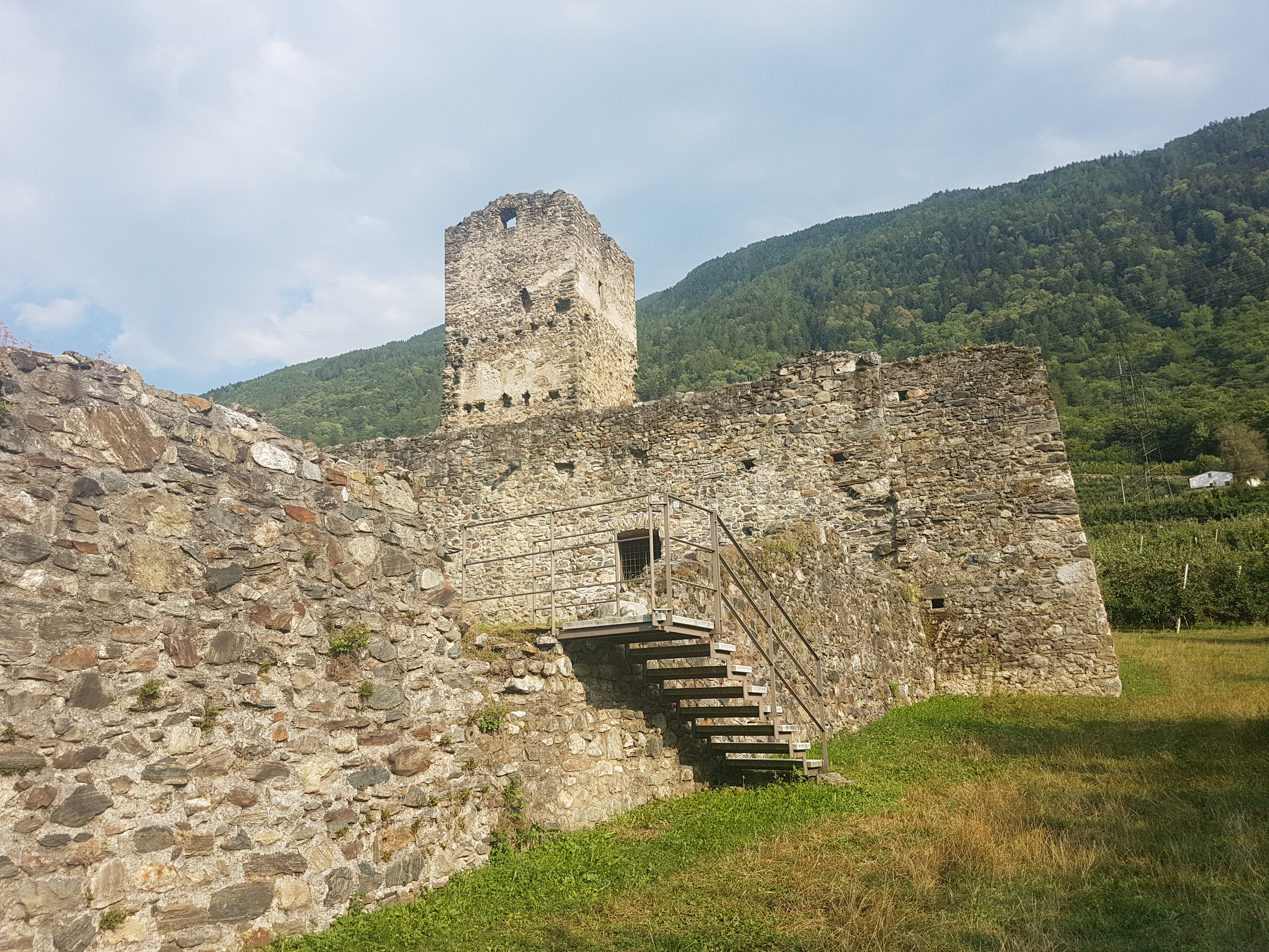 Castello Santa Maria in Tirano.